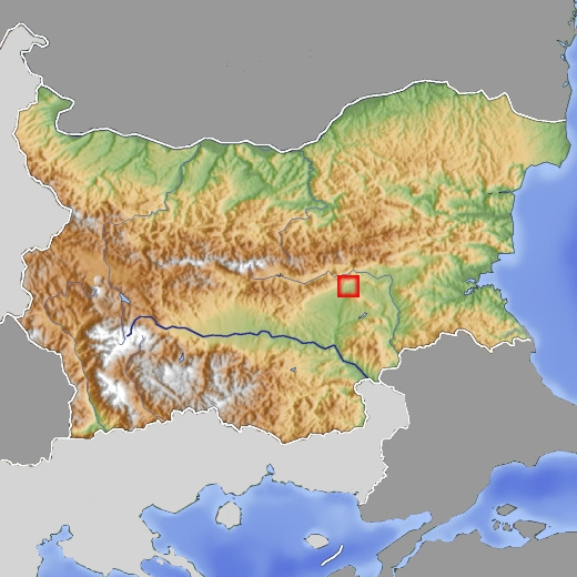 Bulgaria, Location of Karanovo